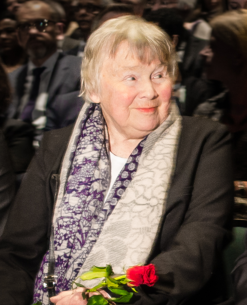 Lisbet Palme at the Culture House in Stockholm on February 28, 2016 in connection with the 30th anniversary of the murder of Olof Palme.